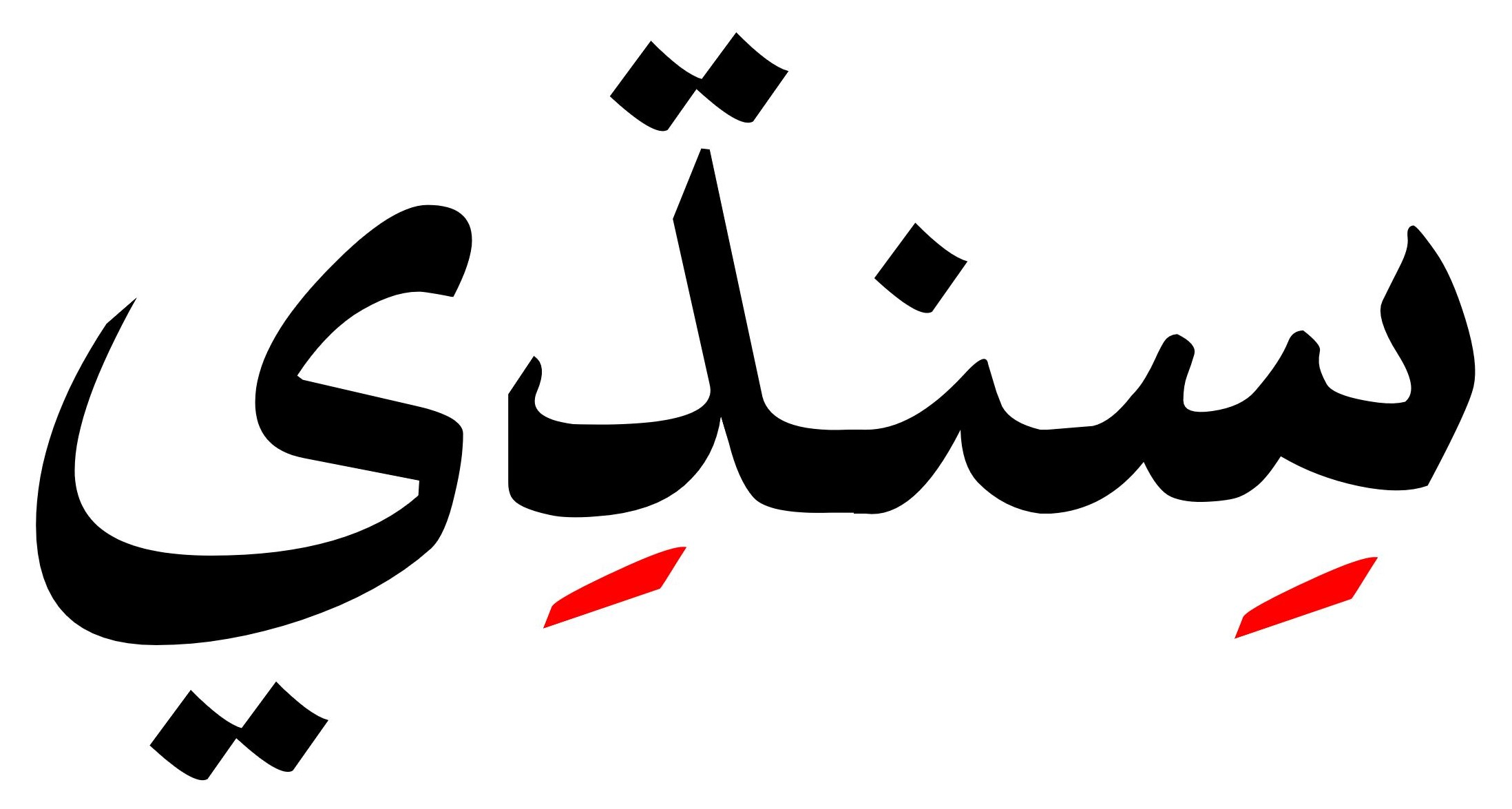 word Sindhi in Arabic Sindhi سنڌي: عربي اکرن ۾ سنڌي